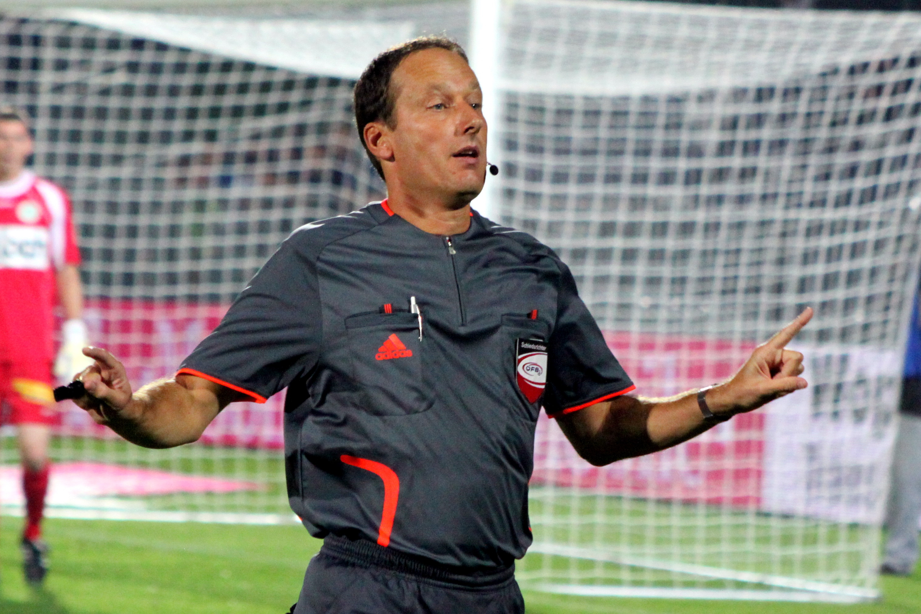 Dietmar Drabek - Referee (association football) of Austria